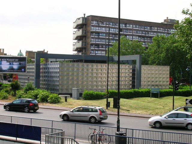 Michael Faraday Monument, Northern Roundabout, Elephant and Castle SE1 Michael Faraday (1791-1867) - Chemist and Physicist